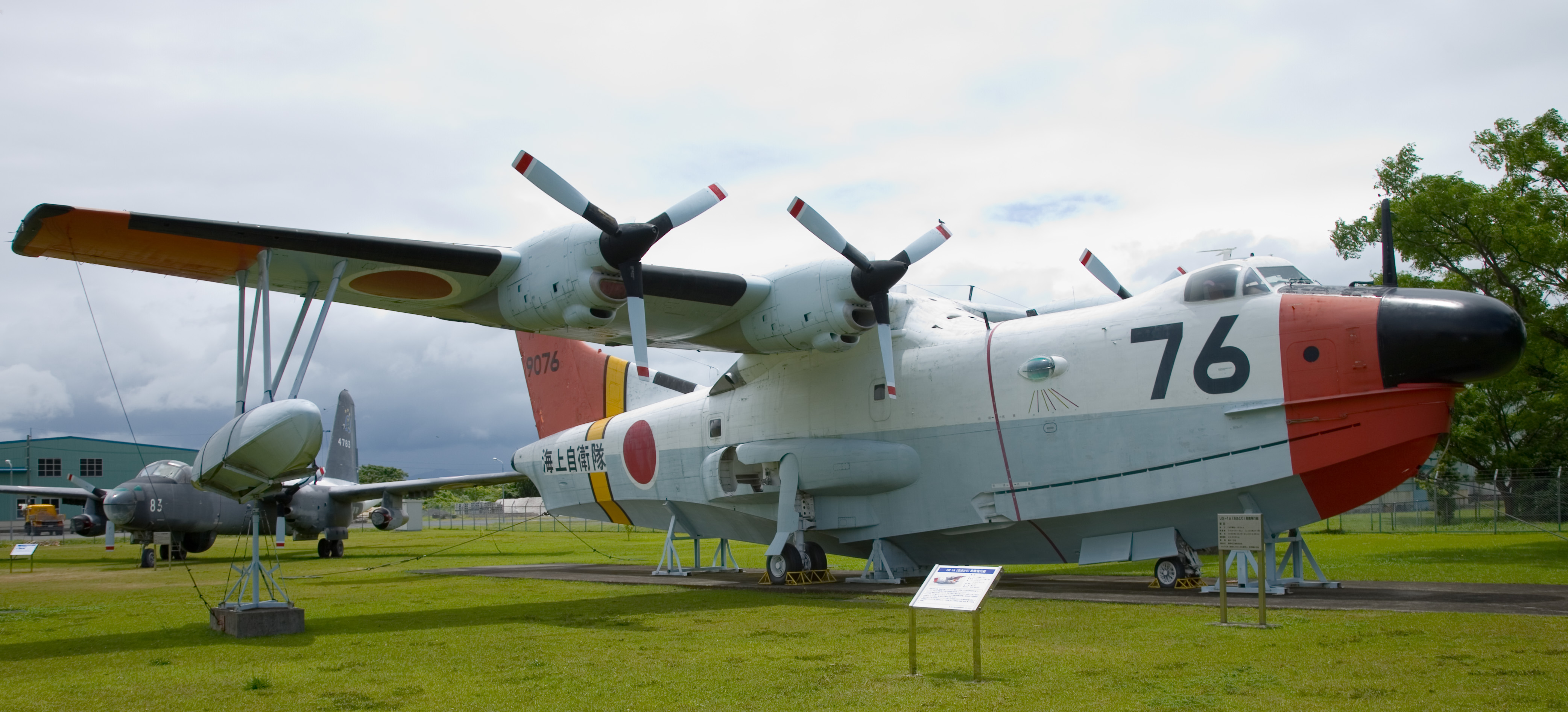 A Japanese Self Defence force US-1a flying boat at Kanoya Museum, Japan